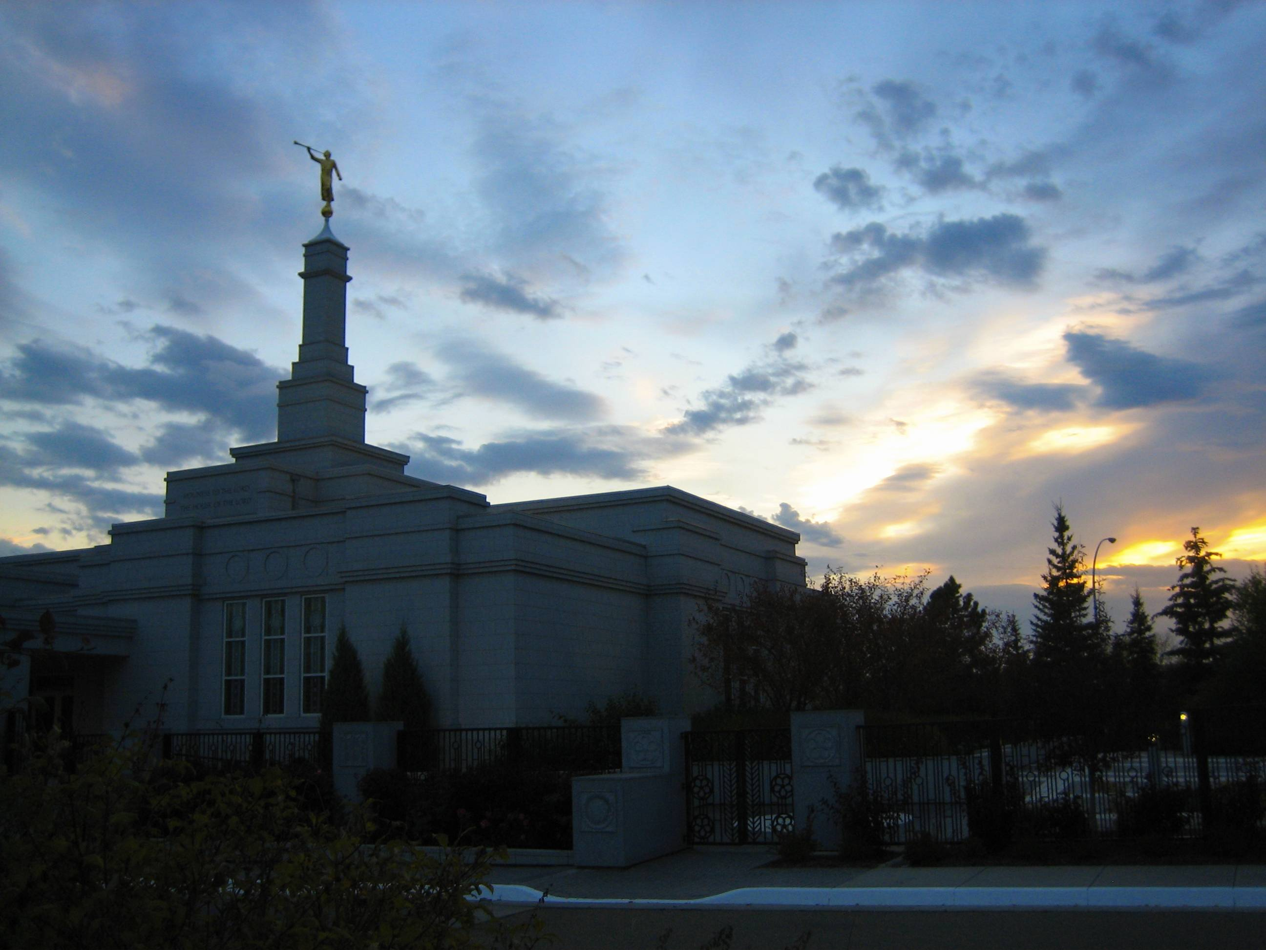 The Edmonton Alberta Temple of The Church of Jesus Christ of Latter-day Saints at dusk.